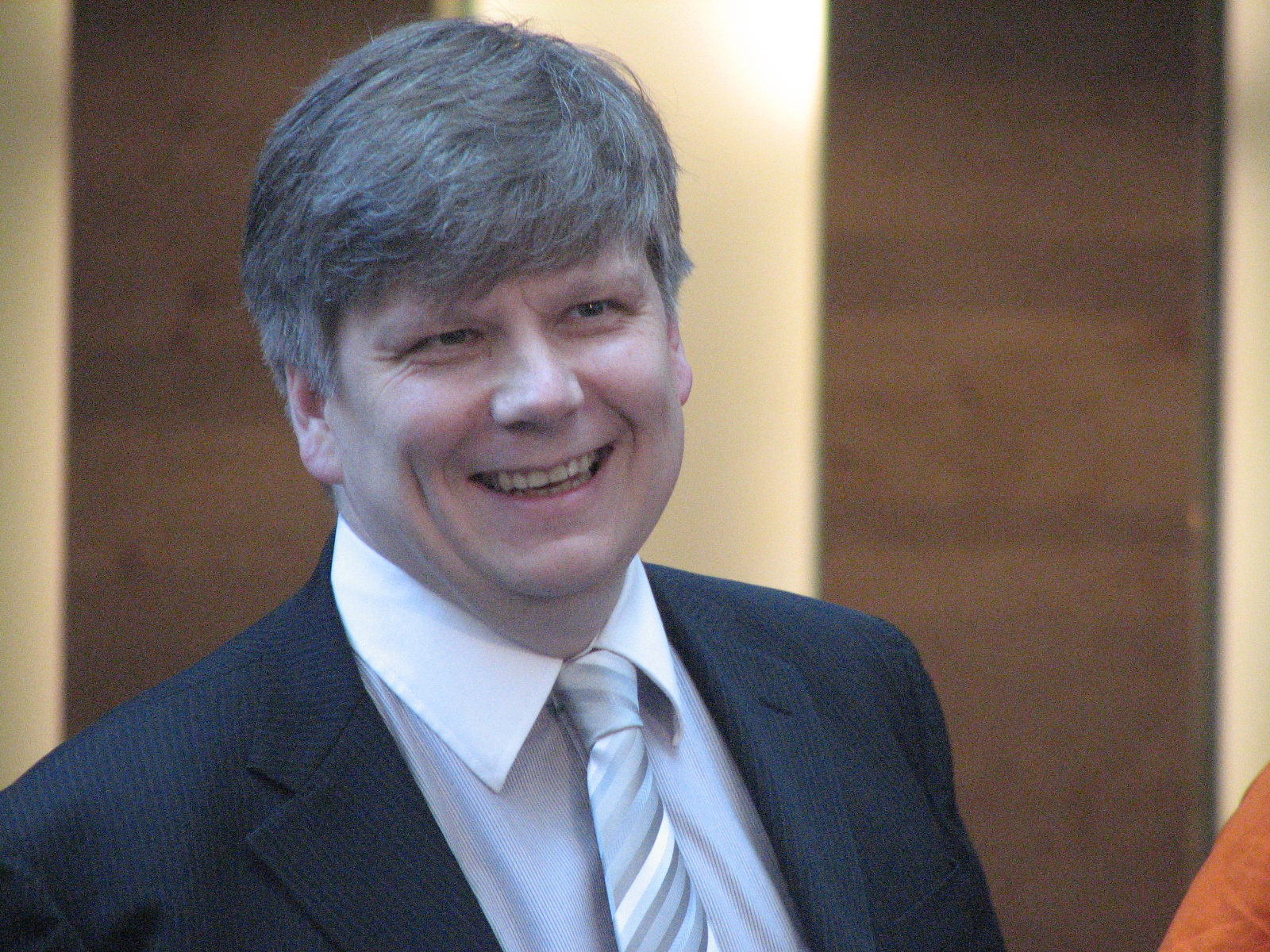 Siim Valmar Kiisler